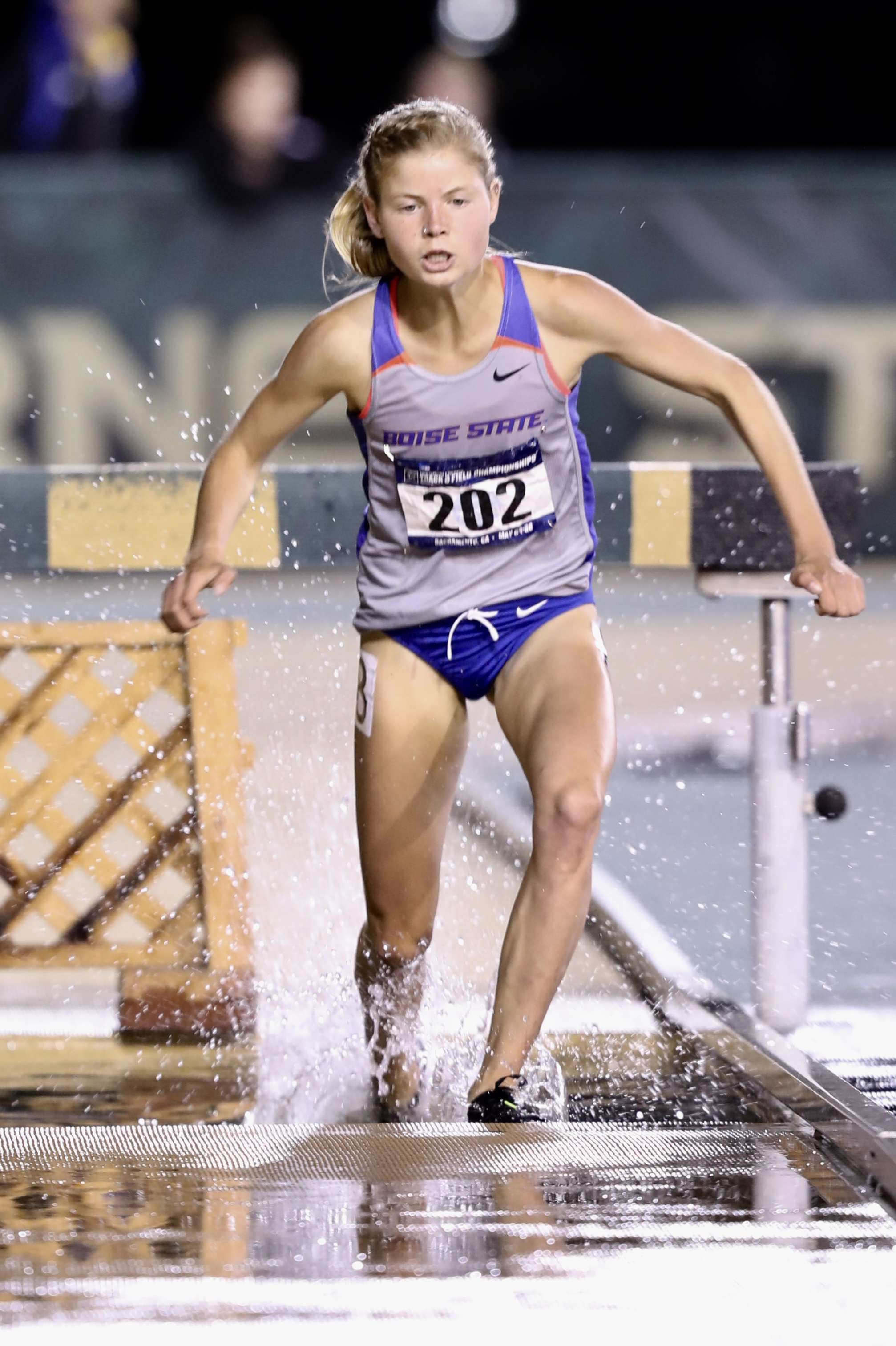 Allie Ostrander winning the 3000m steeplechase at the 2018 NCAA West Regional